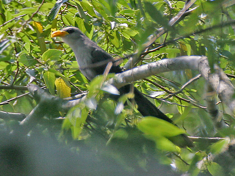 Not a great photo, but I gather these are tough to photograph (it is the only photo of this species on Flickr at this time). Sinclair et al. 2002 Birds of Southern Africa shows this as a Green Malkoha or Green Coucal. Clements shows it as Yellowbill. Photographed at the Phongola Nature Reserve, KwaZulu Natal, South Africa on a Rockjumper tour.